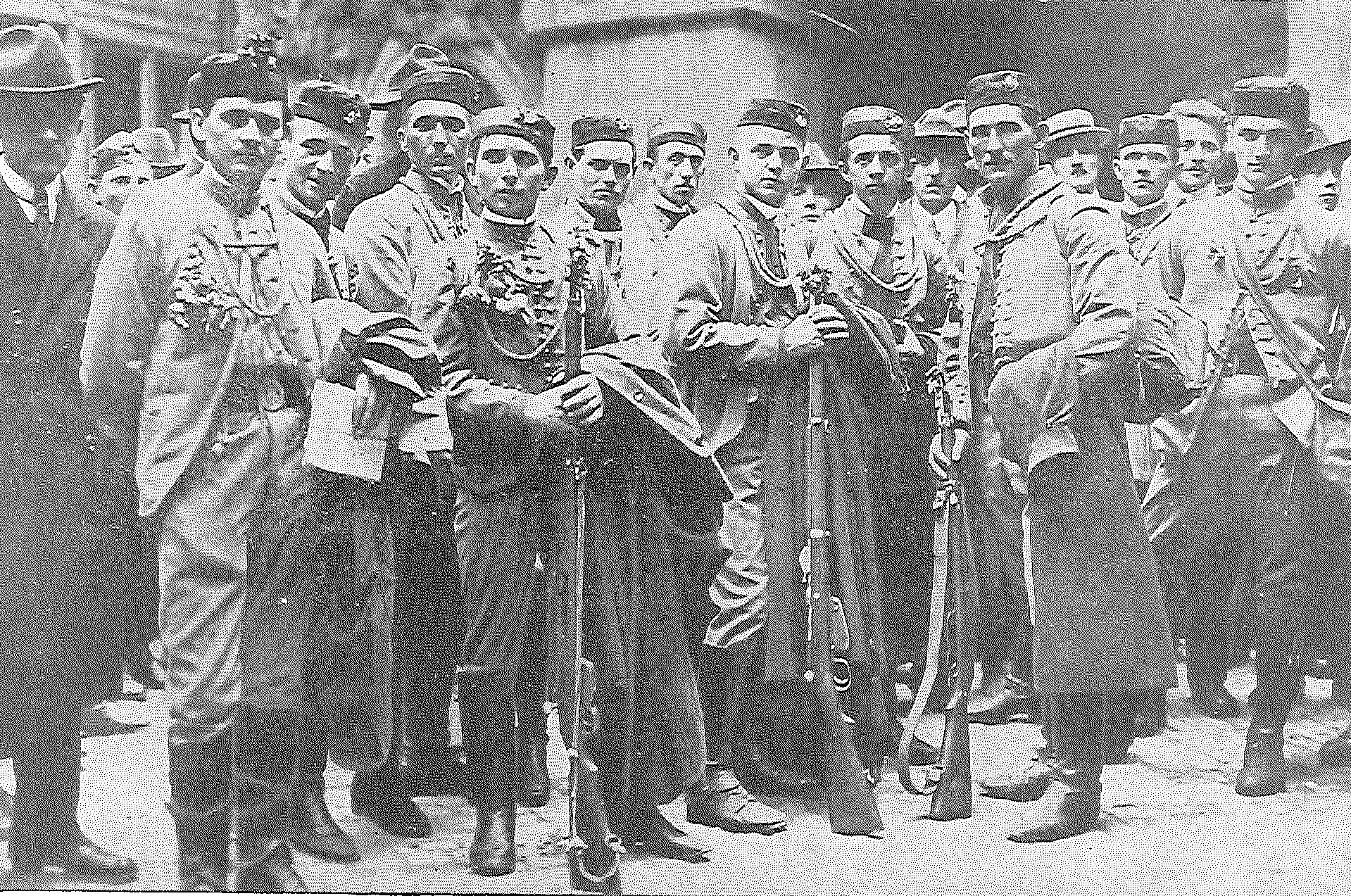 Armed Sokol organization members serving during the days of foundation of independent Czechoslovakia in 1918.